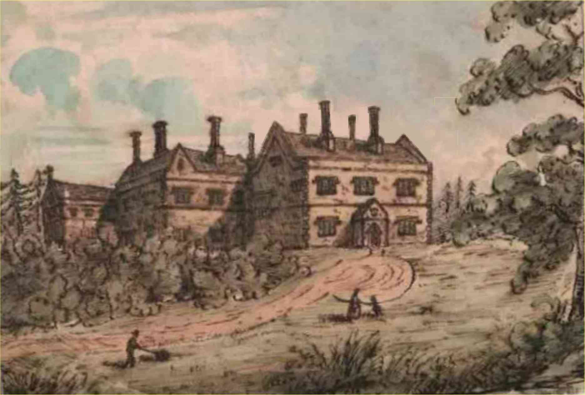 Painting of Bentworth Hall c 1835